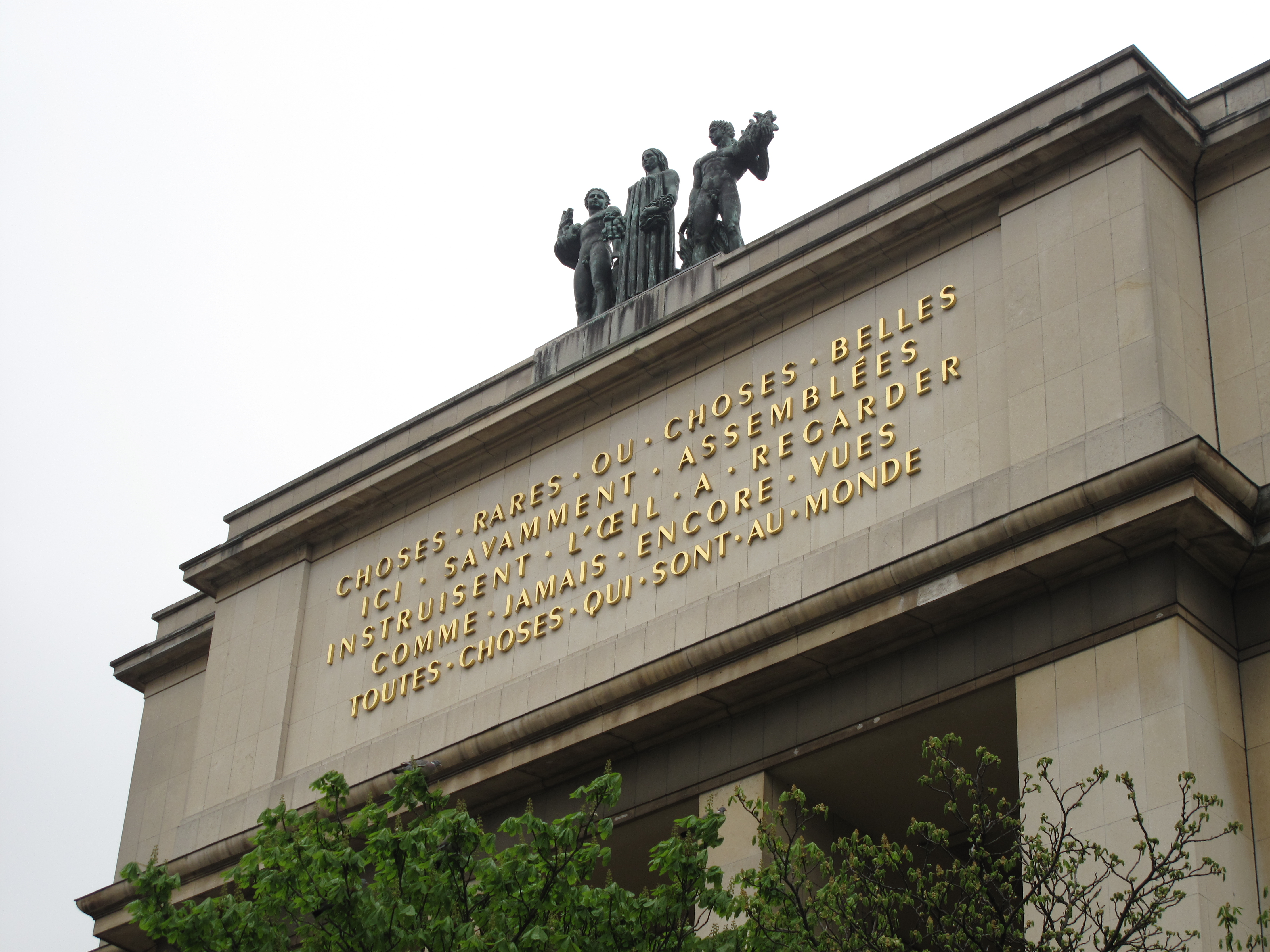 Le fronton du Musée de l'Homme avec les stances de Paul Valéry